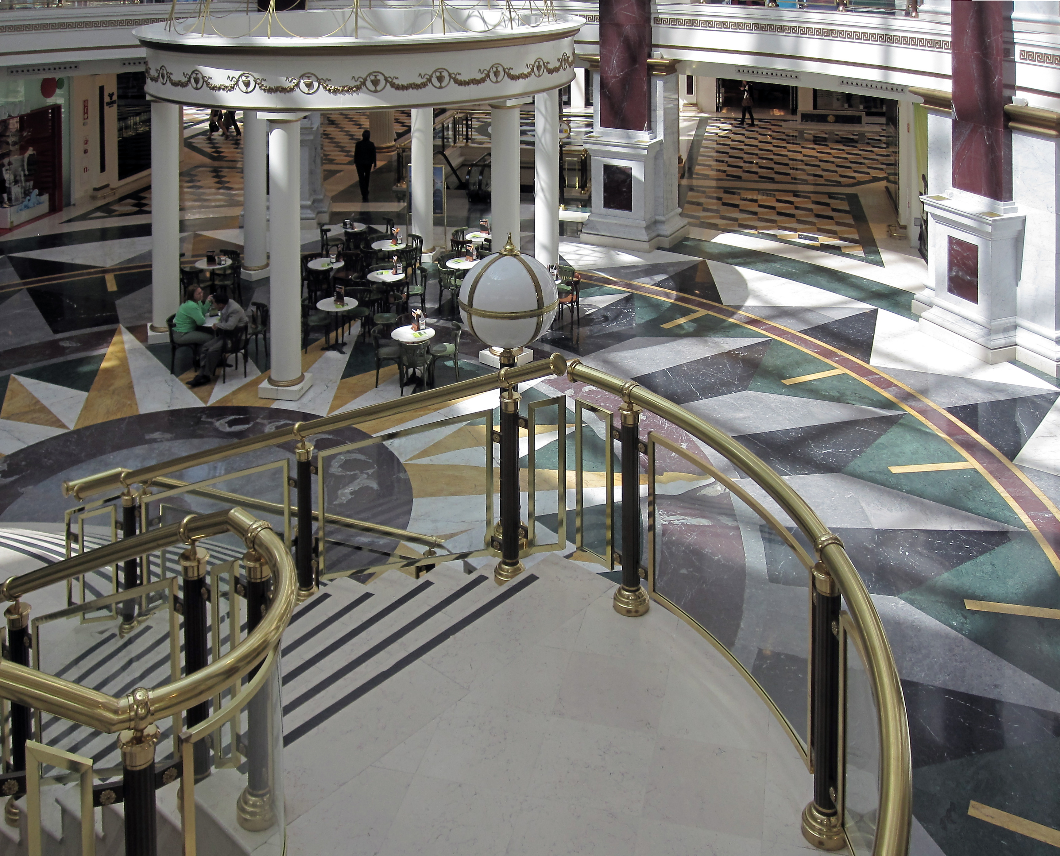 Plaza Norte 2, Commercial centre in north part of Madrid, Spain.